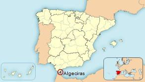 Algeciras Location Map